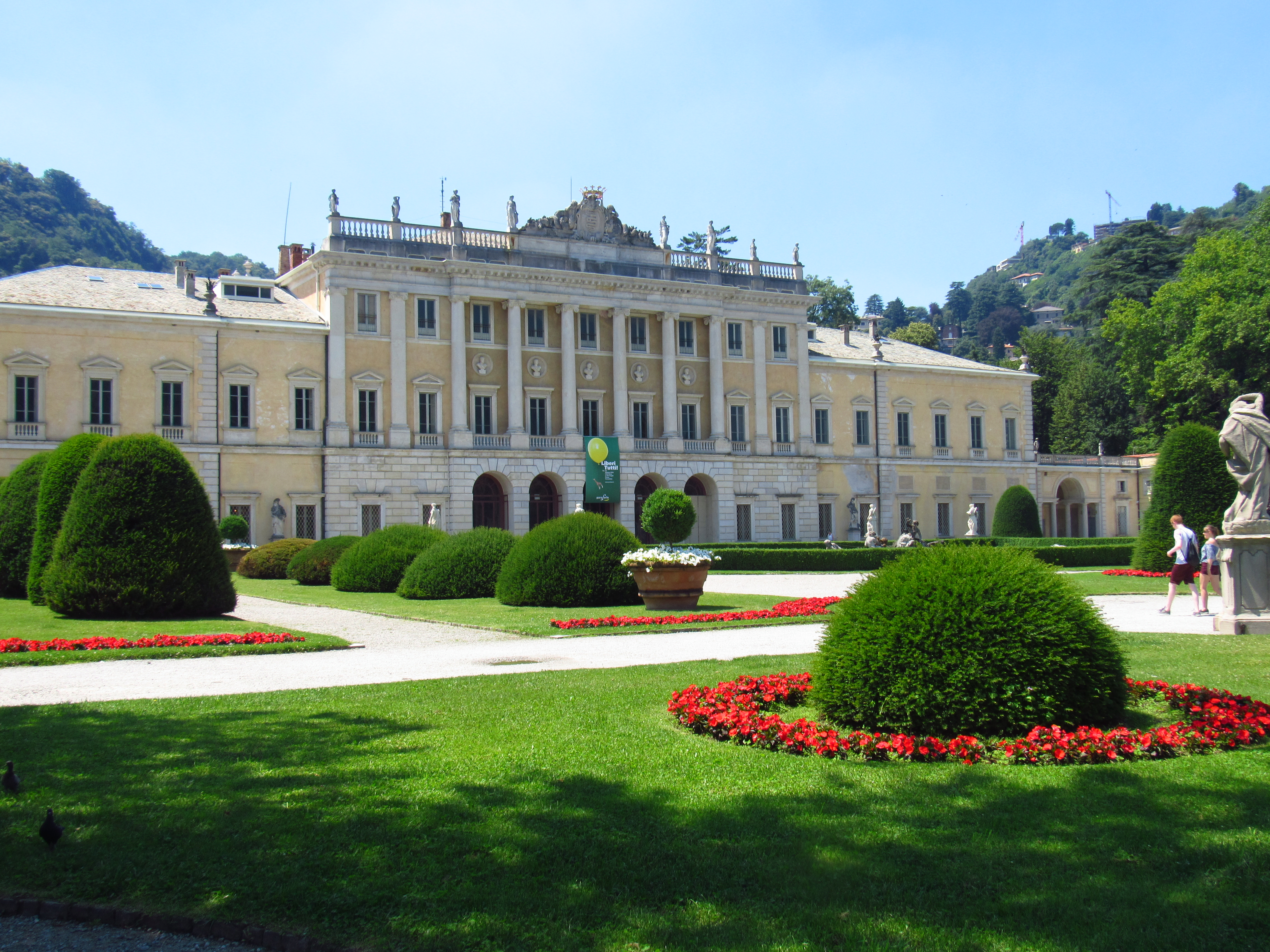 Villa Olmo, Como, Italy.